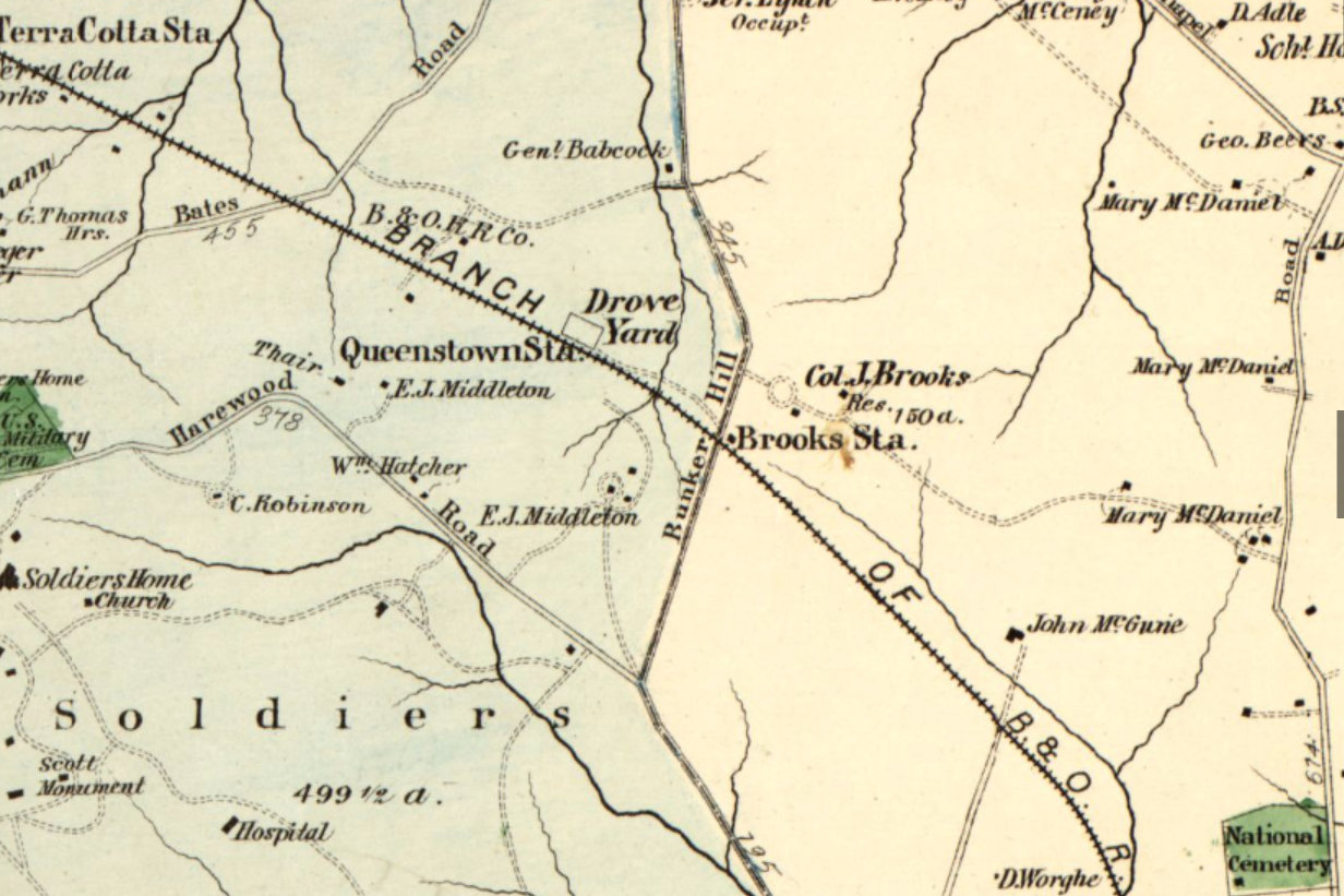 Atlas of fifteen miles around Washington, including the county of Montgomery, Maryland